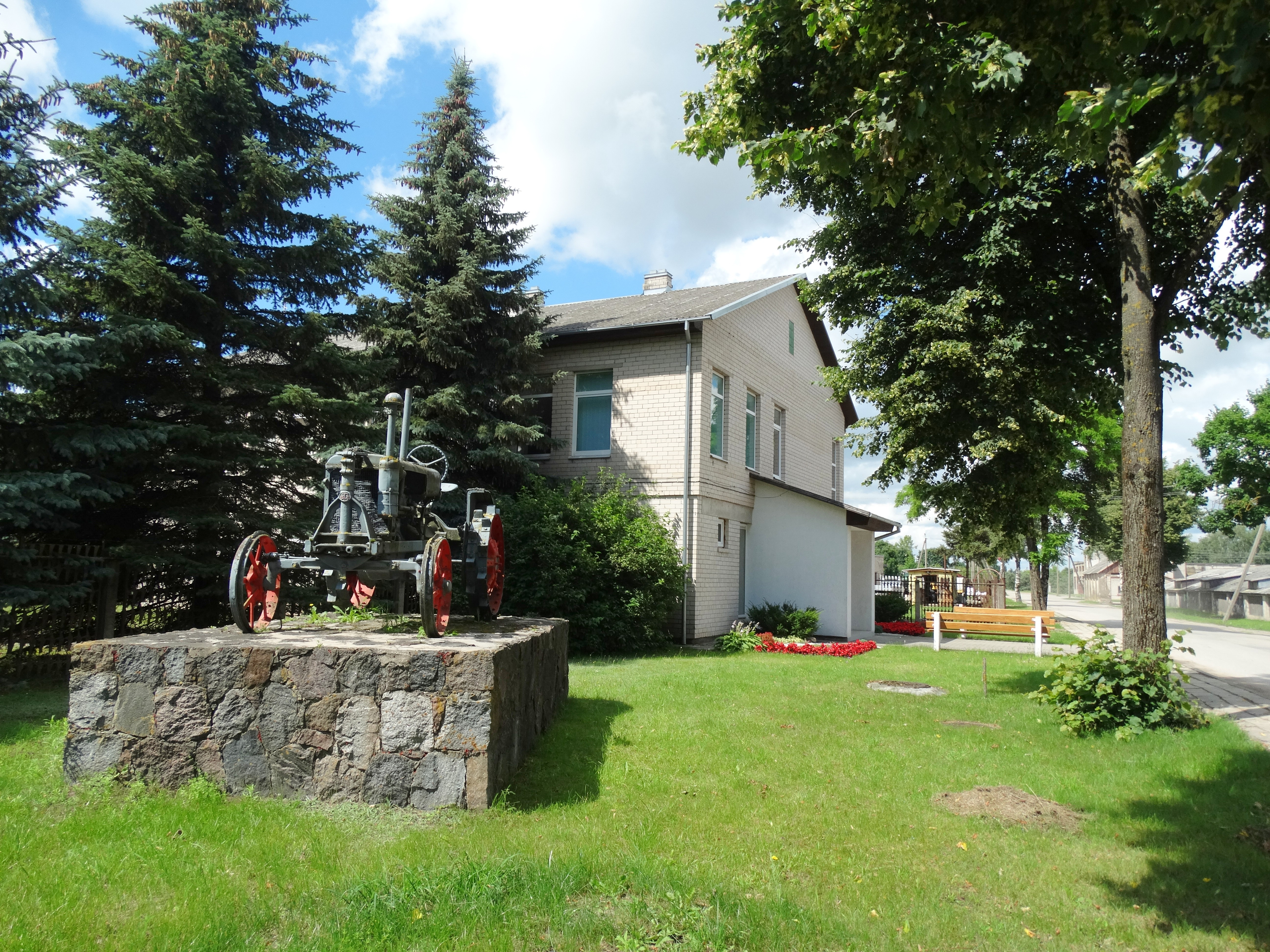 Gegužinė, Panevėžys district, Lithuania